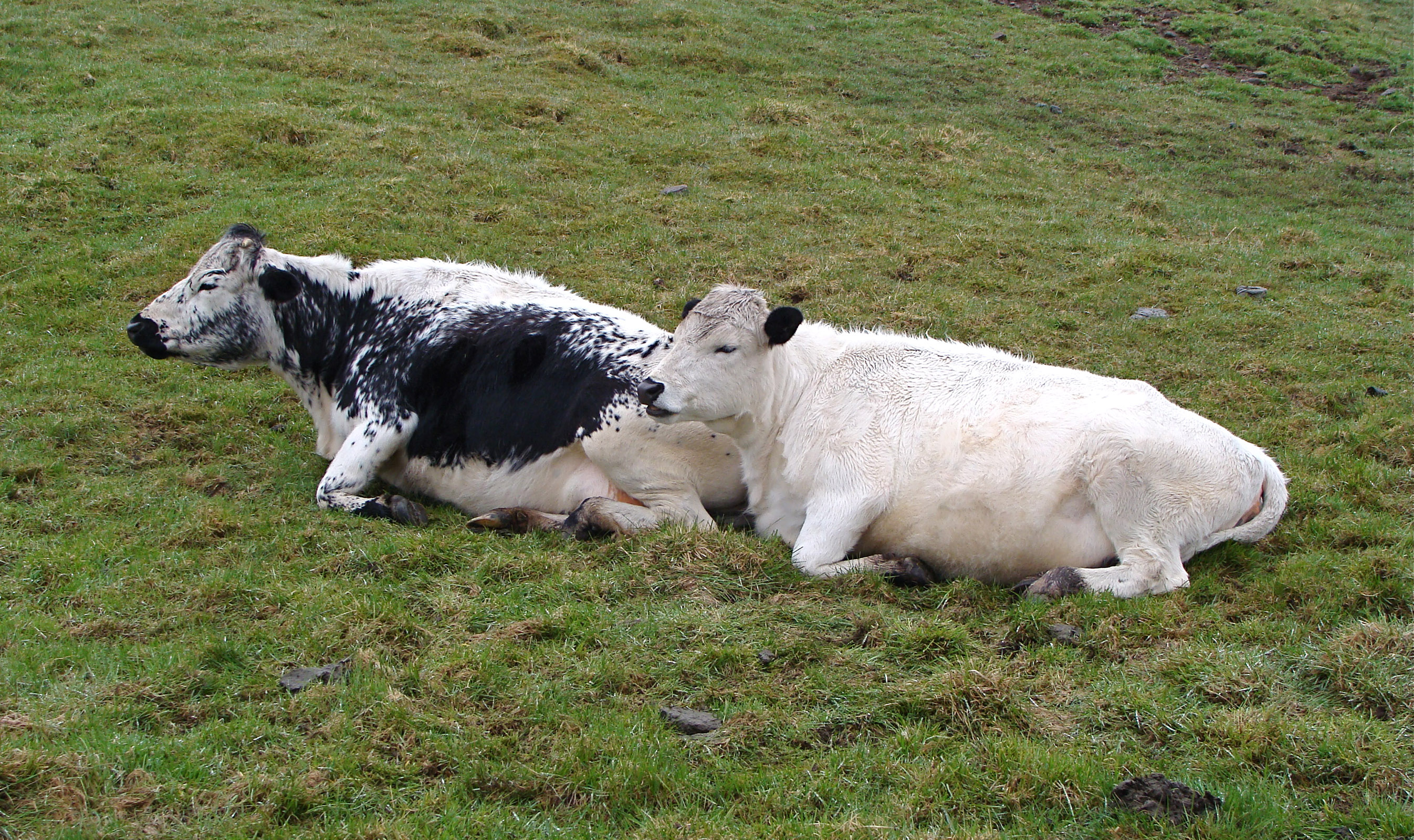 Swedish Hornless Cattle, Viking Museum Borg, Lofoten, Norway